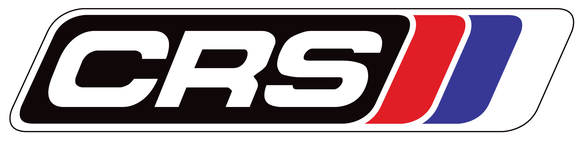 CRS Racing logo